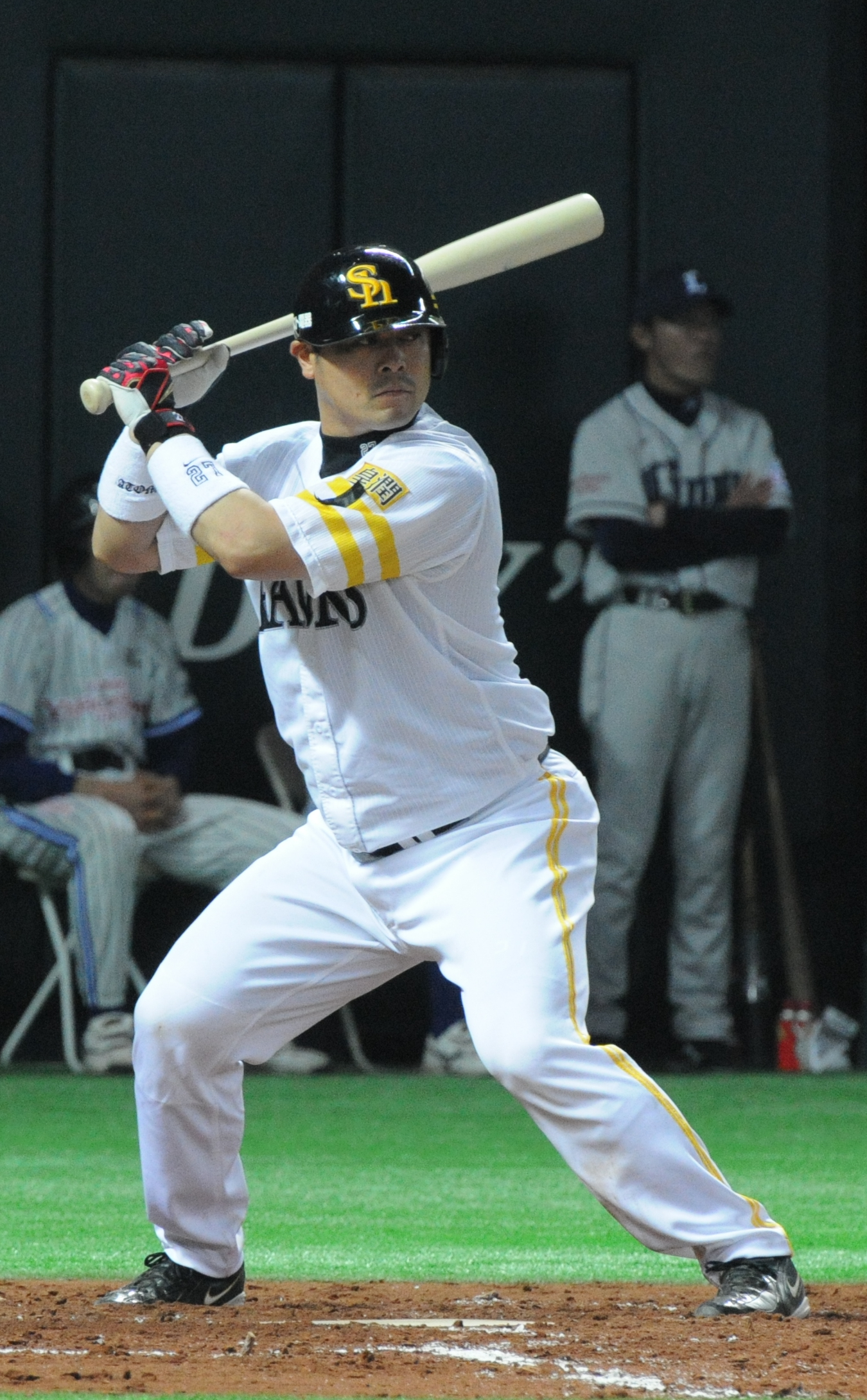 Toru Hosokawa, catcher of the Fukuoka SoftBank Hawks, at Fukuoka Dome.